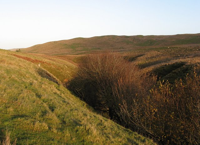 Buck Cleuch Not such a posh spelling. A steep sided cleuch, (cleugh, clough, gutter, dingle etc) which provides a sanctuary for some trees, out of the reach of the sheep.